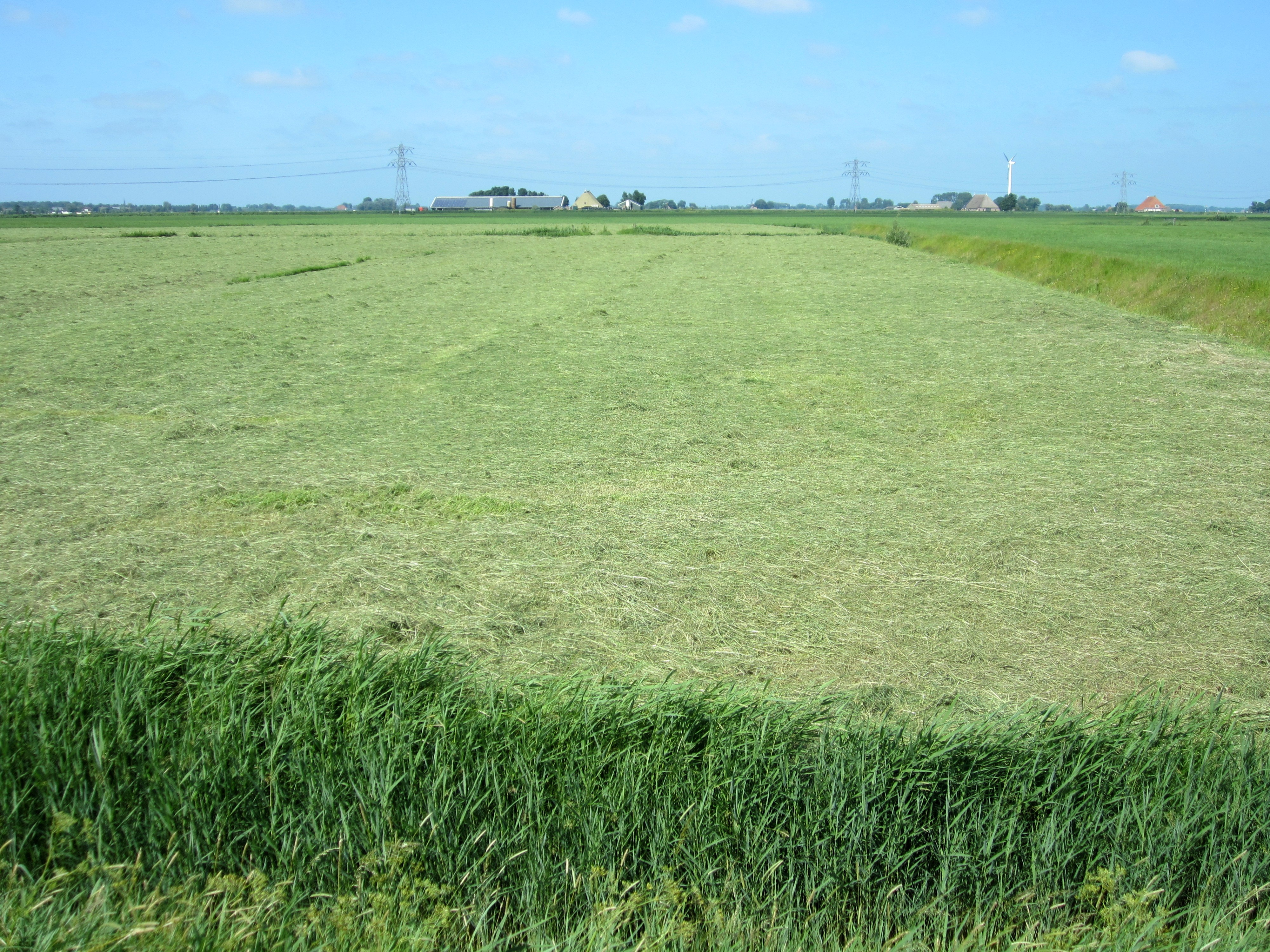 Haymaking near Dronrijp, Friesland, the Netherlands.